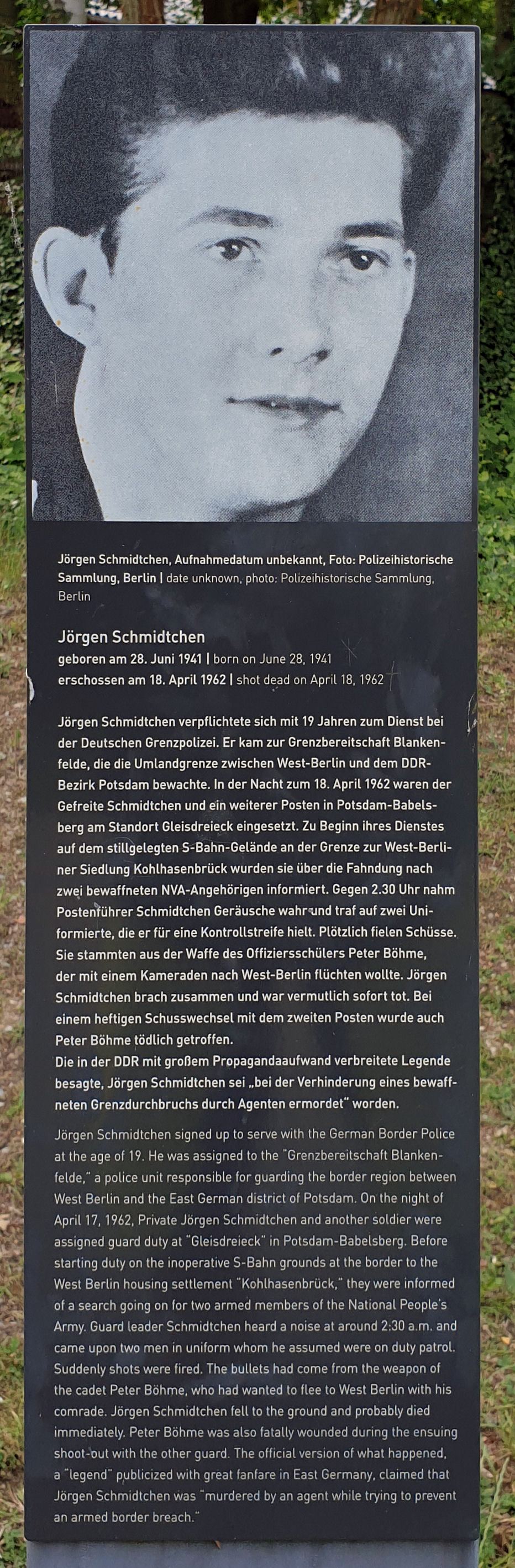 Memorial plaque, Jörgen Schmidtchen, Stubenrauchstraße 35, Babelsberg, Deutschland